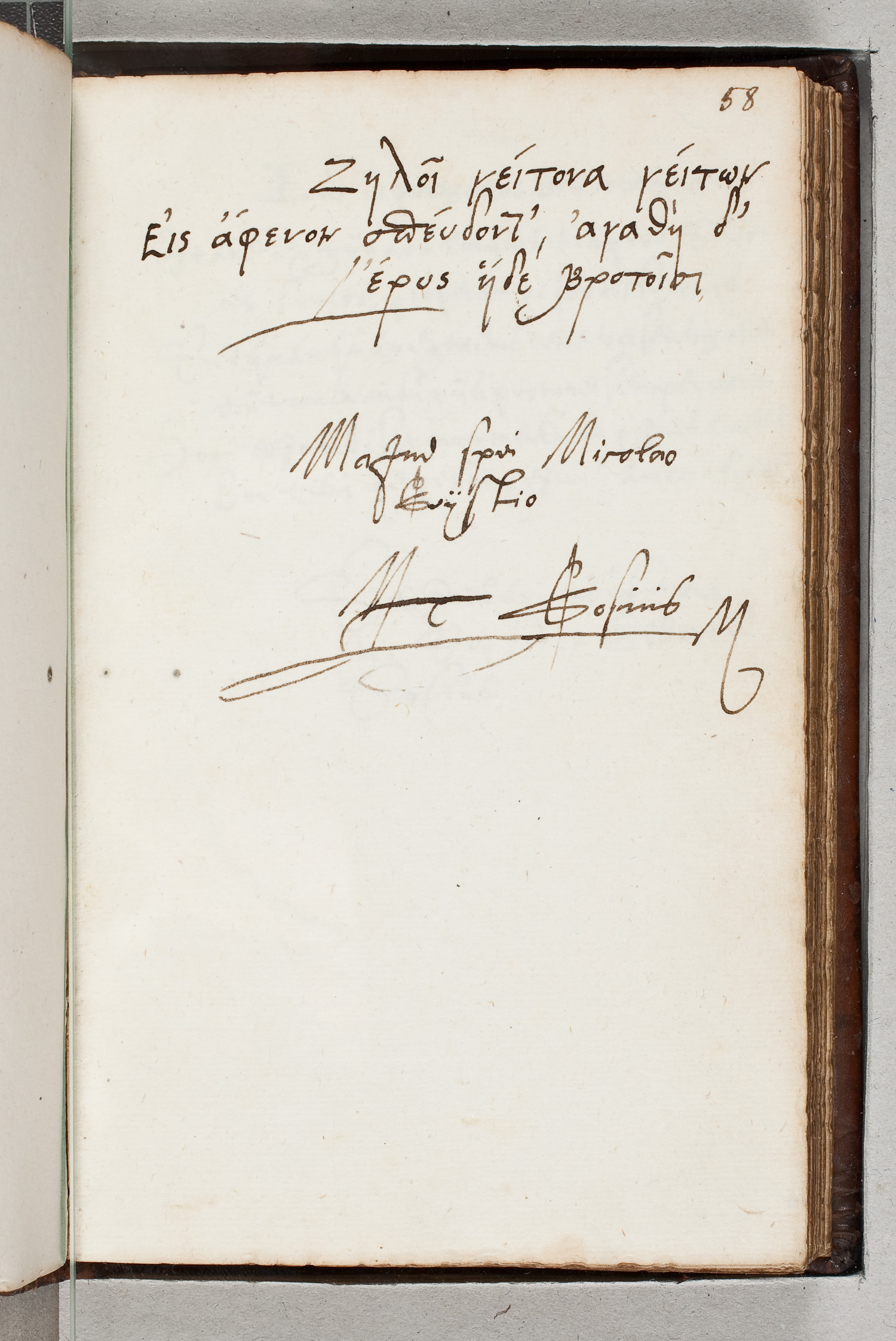 Manuscript of Thomas Sosius (-1598), in an Album Amicorum dedicated to Nicolaus van Zeyst (1563-1617). (Sosius = Soesius = Zosius = Zoesius = van Soest)